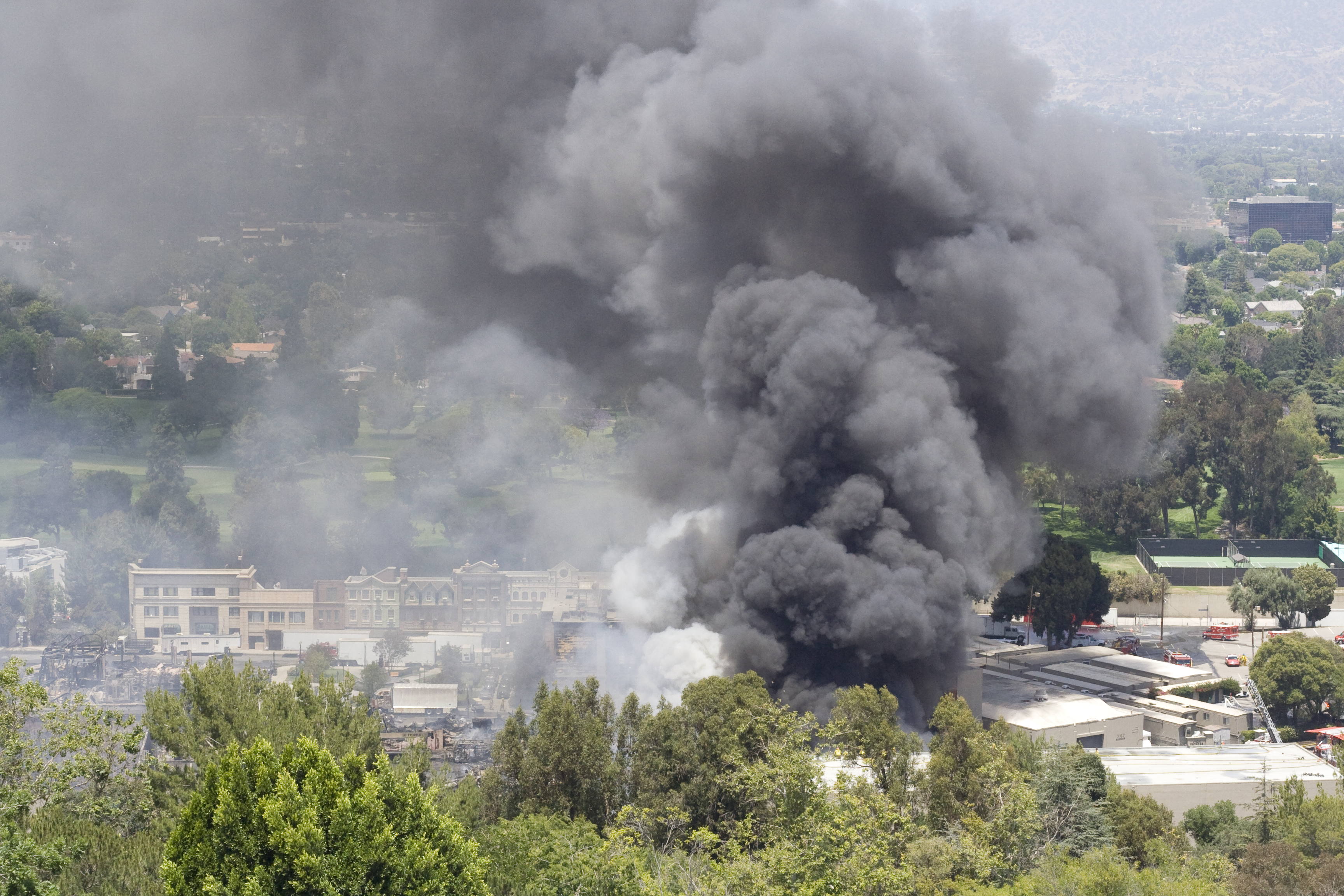 Smoke at the scene of the Universal Studio Fire, June 1, 2008